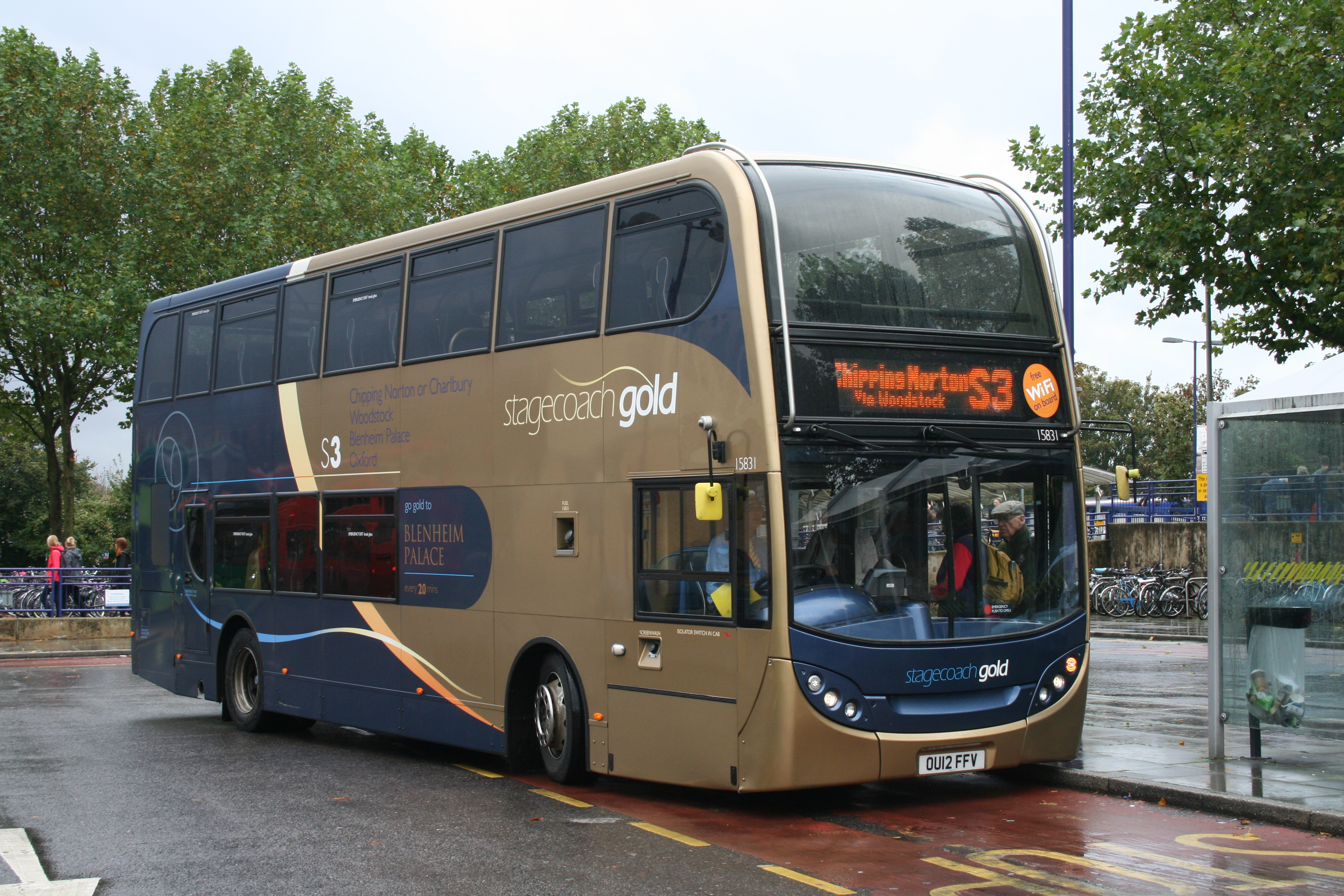 A Stagecoach in Oxfordshire bus on route S3 on the forecourt of Oxford railway station, Oxfordshire. It is a Scania N230UD with an Alexander Dennis Enviro400 body, fleet number 15831, registration mark OU12 FFV.